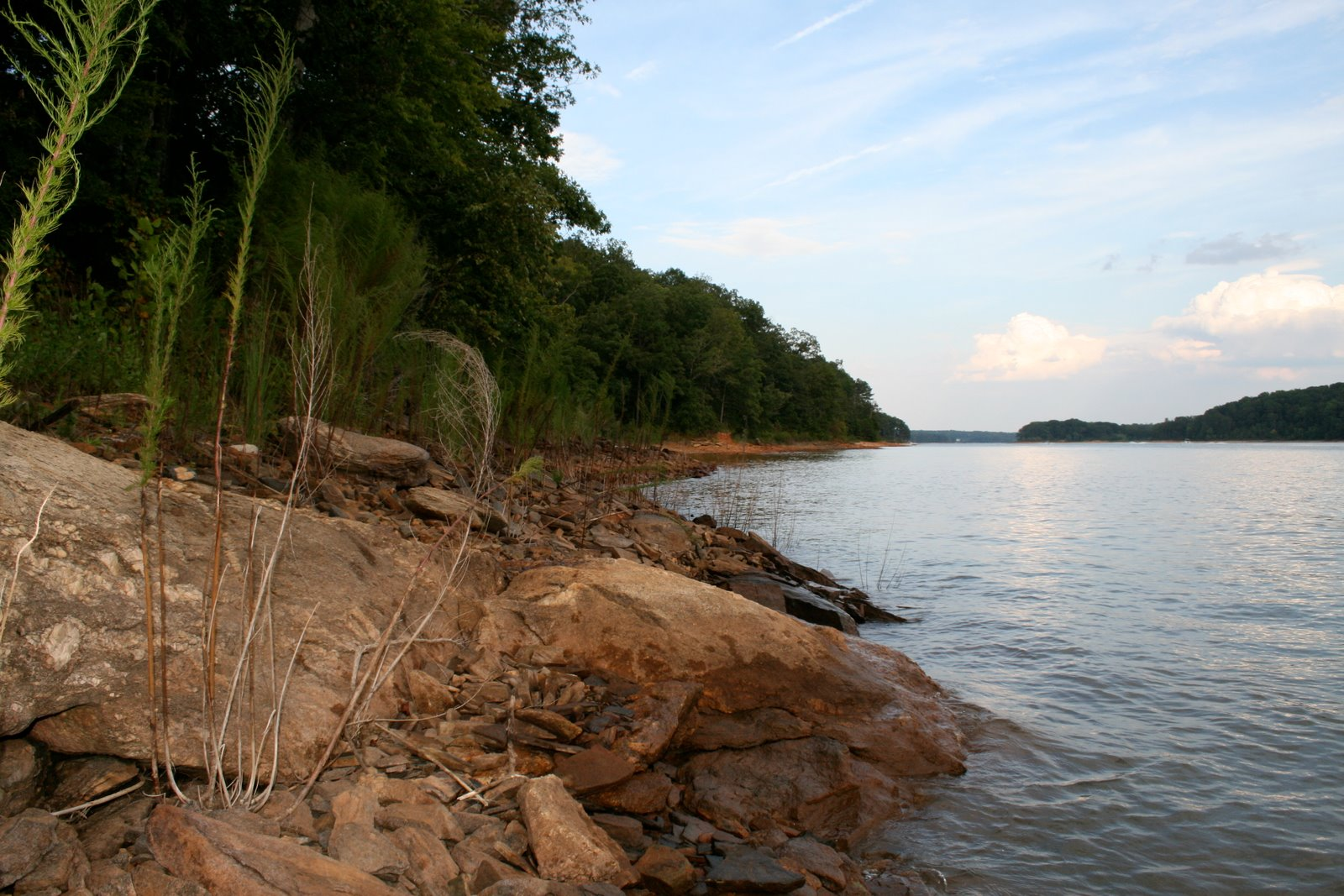 Bank of Lake Hartwell and the Tugaloo River outside of Toccoa, Georgia